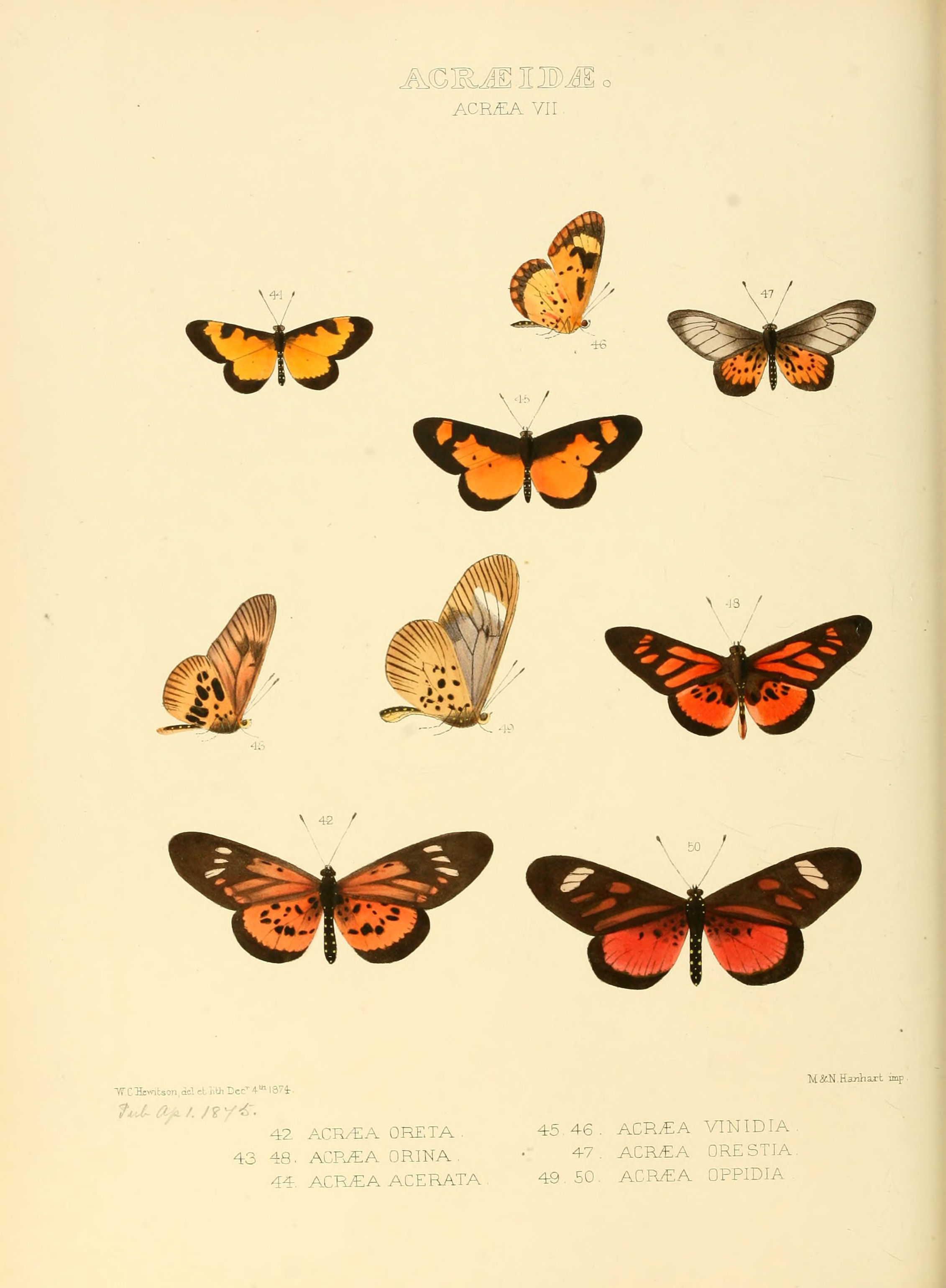 Plate: Acræa VII Acræa oreta. Fig. 42. Accepted as Acraea orina Hewitson, 1874. Acræa orina. Figs. 43, 48. Accepted as Acraea orina Hewitson, 1874. Acræa acerata. Fig. 44. Accepted as Acraea acerata Hewitson, 1874. Acræa vinidia. Figs. 45, 46. Accepted as Acraea acerata Hewitson, 1874. Acræa orestia. Fig. 47. Accepted as Acraea orestia Hewitson, 1874. Acræa oppidia. Figs. 49, 50. Accepted as Acraea parrhasia (Fabricius, 1793).